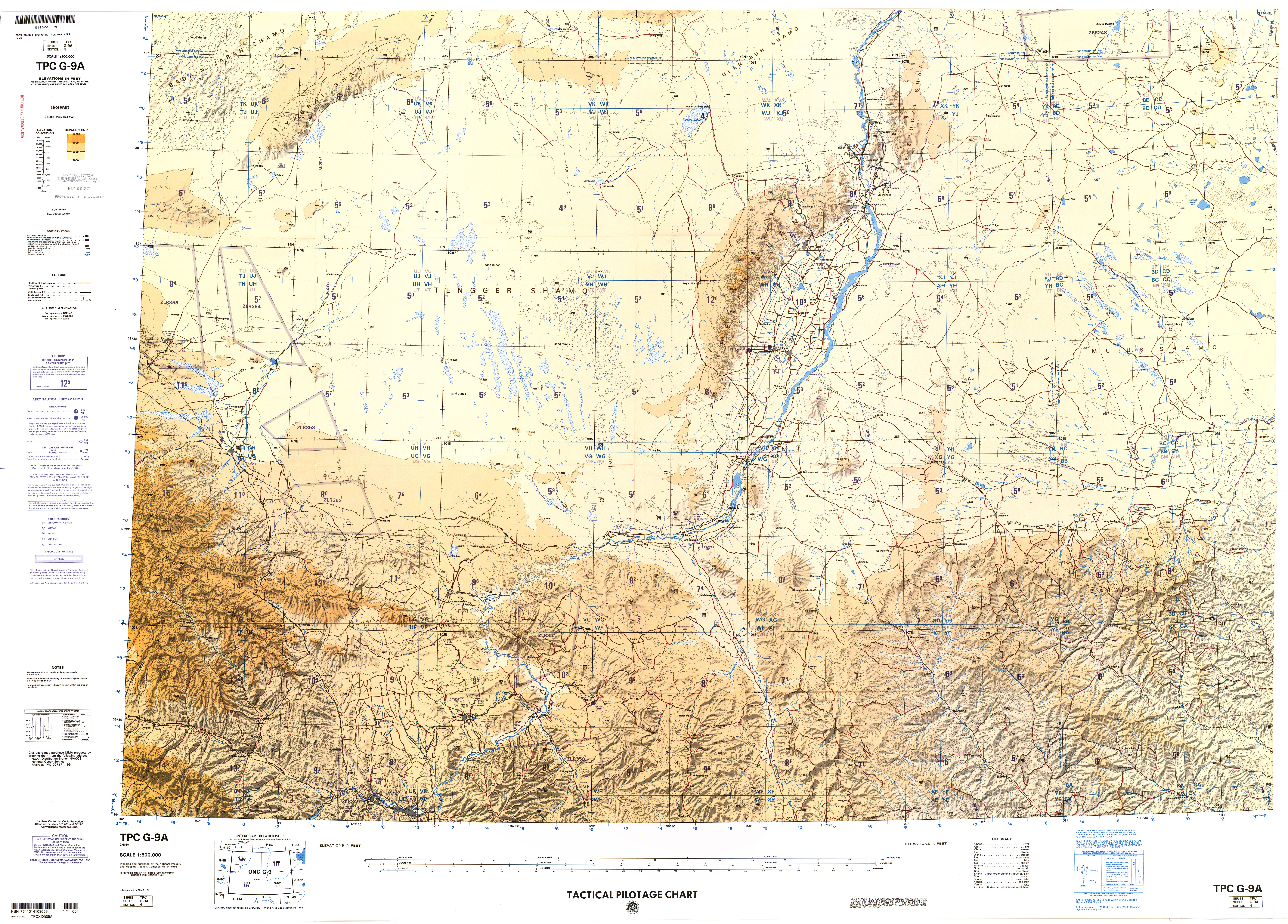 Tactical Pilotage Chart Series - World 1:500,000 Scale